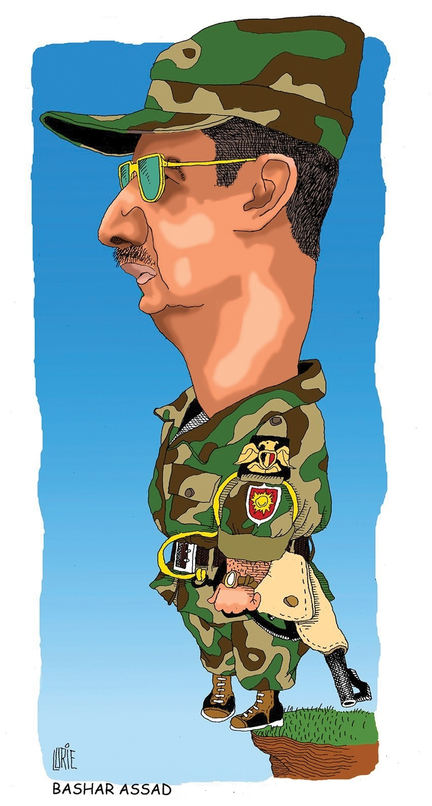 Bashar Assad, becoming Syria's president, by Ranan Lurie